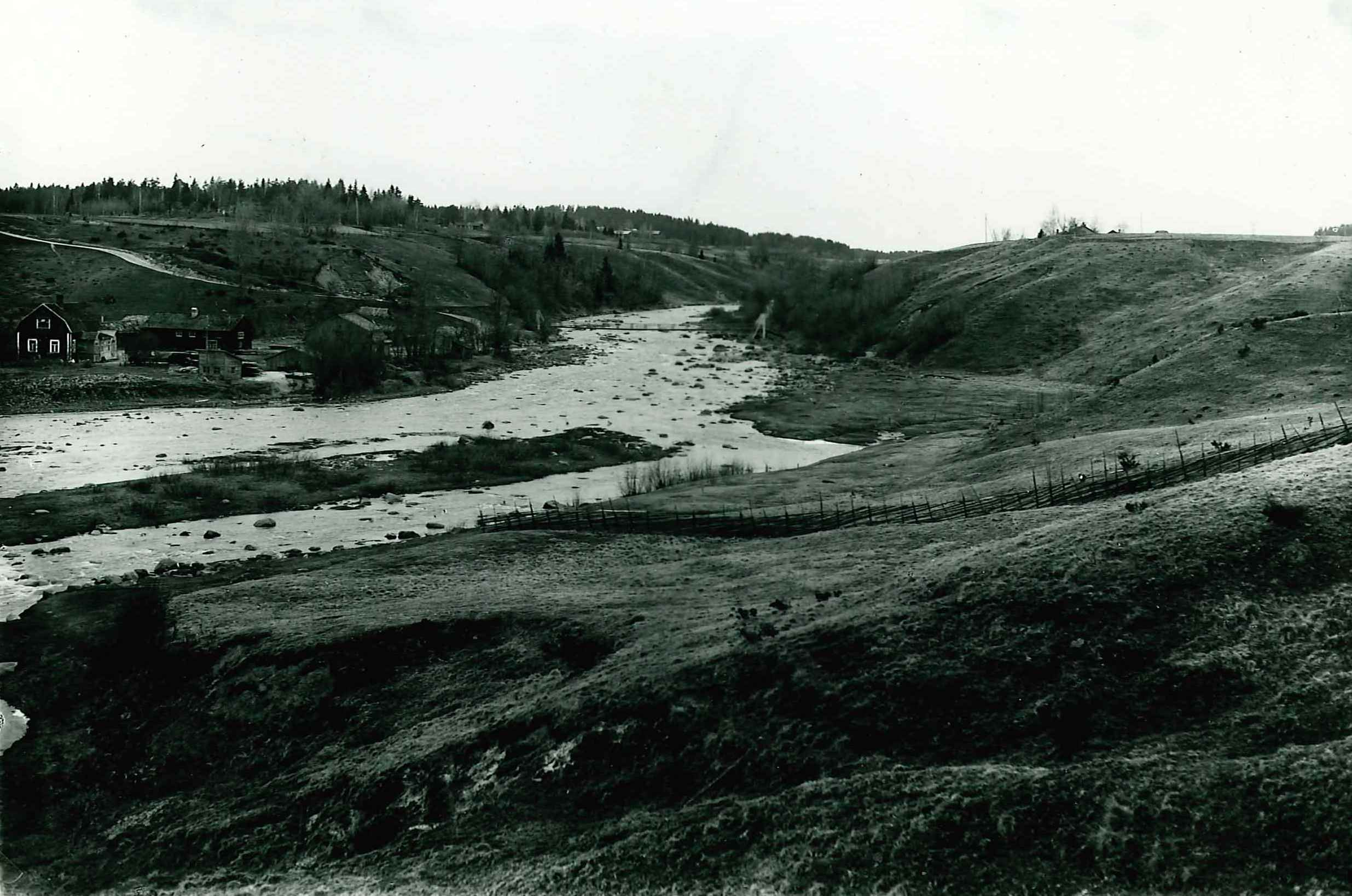 Askalankoski, Paimio, Finland.